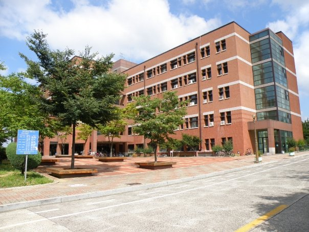 Yeungnam University MME dept